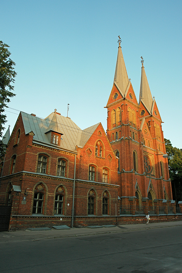 Catholic church and school